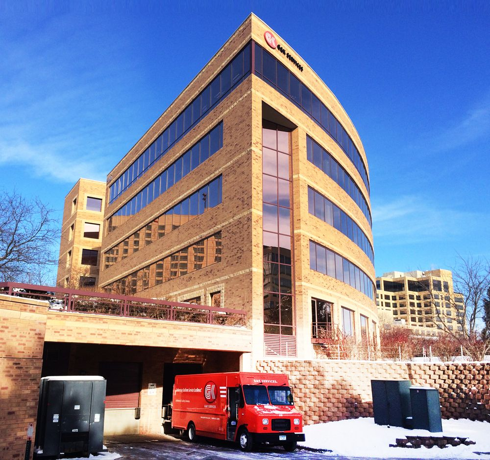 GK CorporateOffice